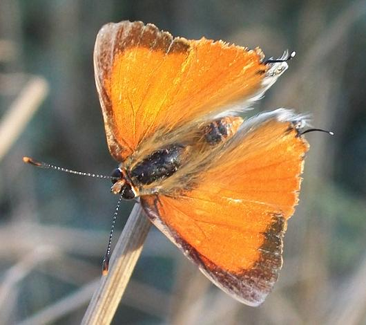 Deudorix dinochares male from Amanzimtoti, South Africa.